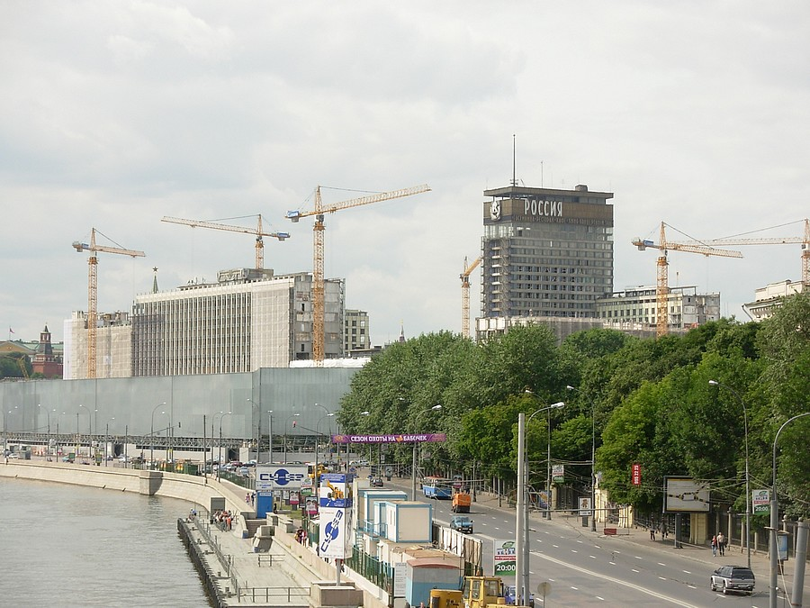 Demolition of the "Rossija Hotel" in central Moscow, July 30th, 2006